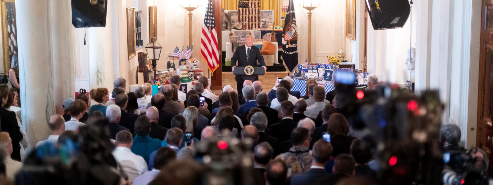 President Donald J. Trump hosting his second “Made in America” product showcase at the White House.